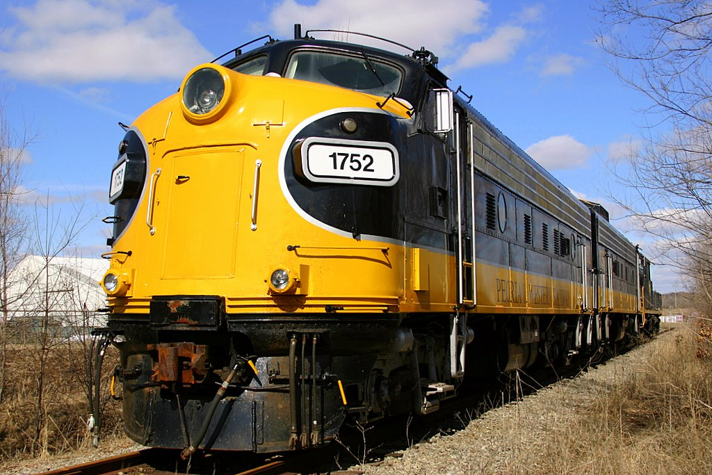 "Peoria & Western" (Keokuk Junction Railway) #1752, an EMD FP9 locomotive in yellow and black, at Mapleton, Peoria County, Illinois. Original caption: “ Glad I finally got a picture of the Peoria and Western F units, classy lookin things ”